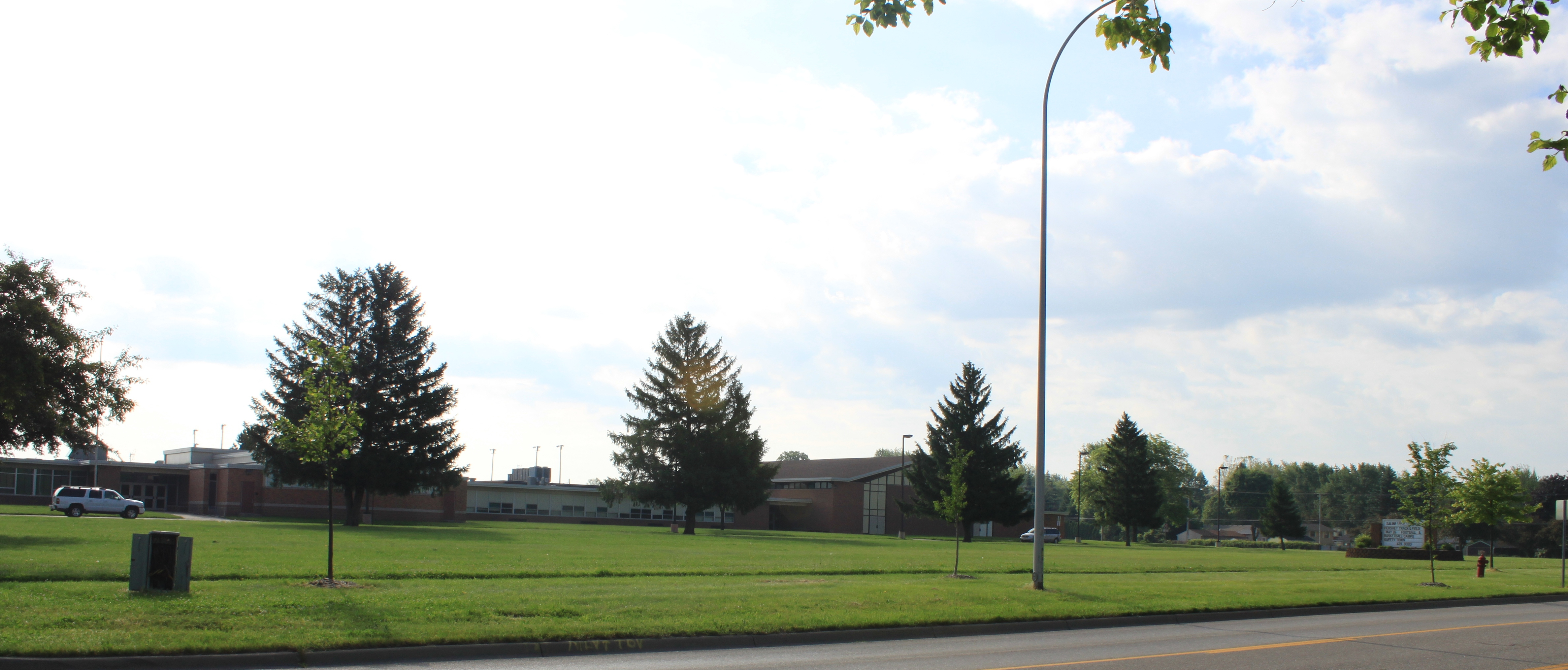 Saline Liberty School, 7265 N. Ann Arbor St. Saline, Michigan 48176.